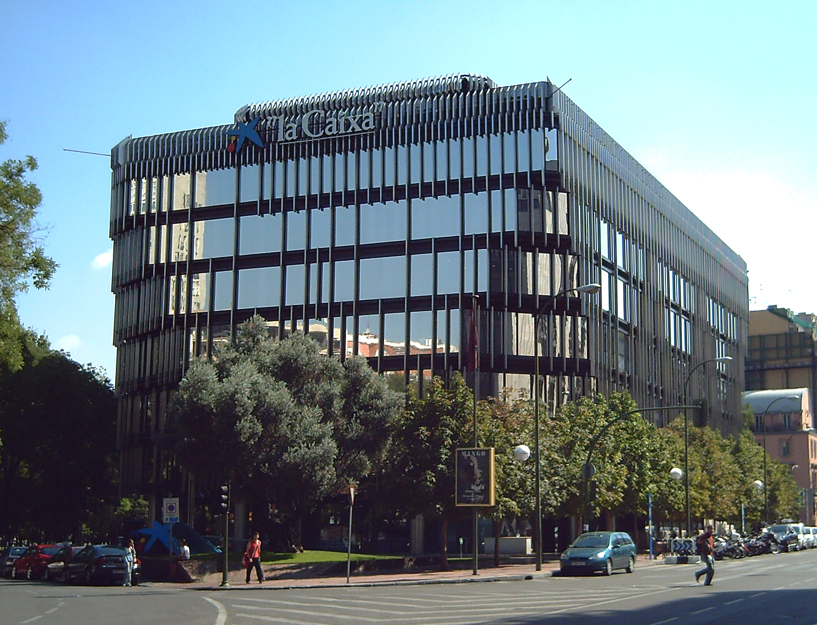 Façade of La Caixa building at 16 Calle de Miguel Ángel (street) in Madrid (Spain). Projected in 1975 by Josep Maria Bosch Aymerich and built from 1975 to 1980.